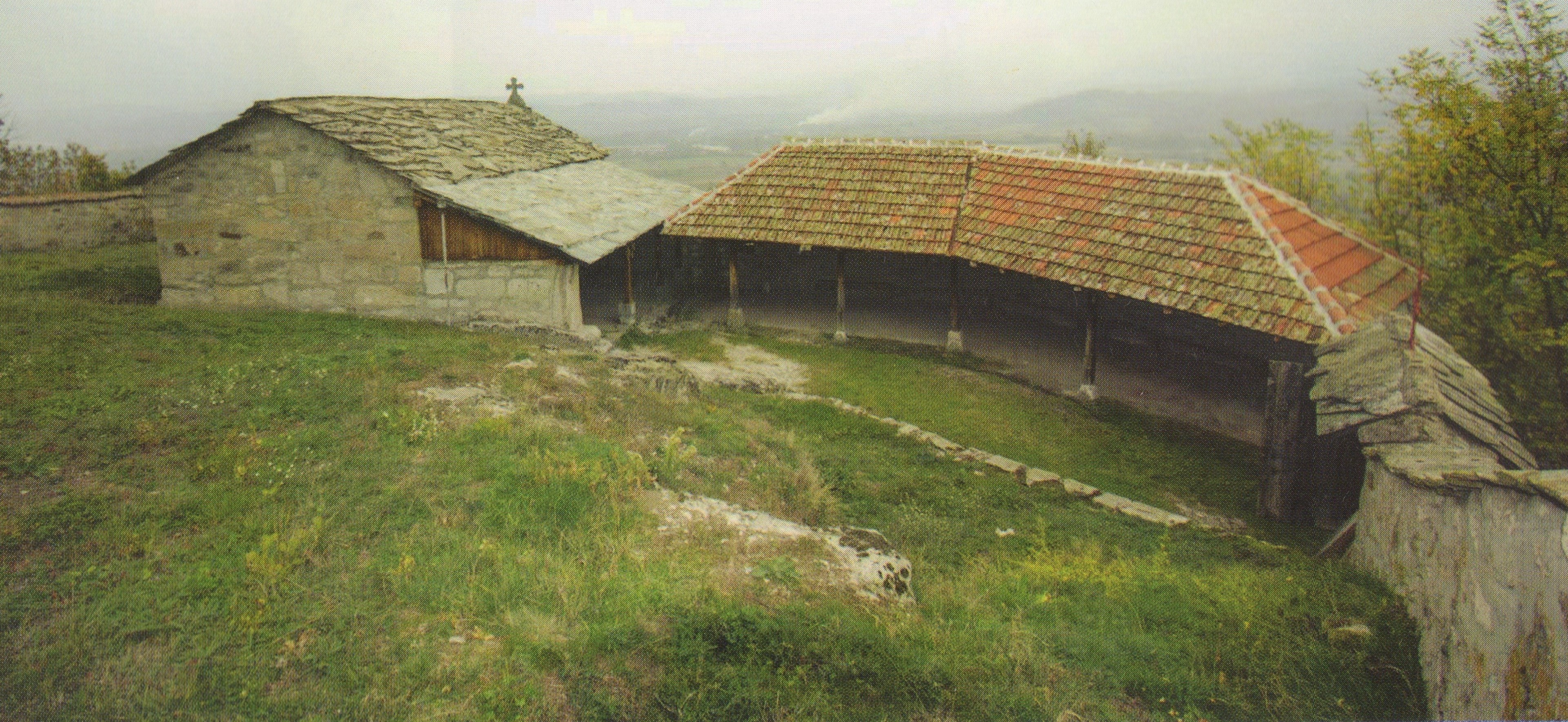 Church of Holy Transfiguration of Jesus in Stubal, Vladičin Han